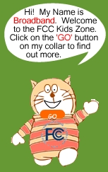 Character for children of FCC"Broadband"